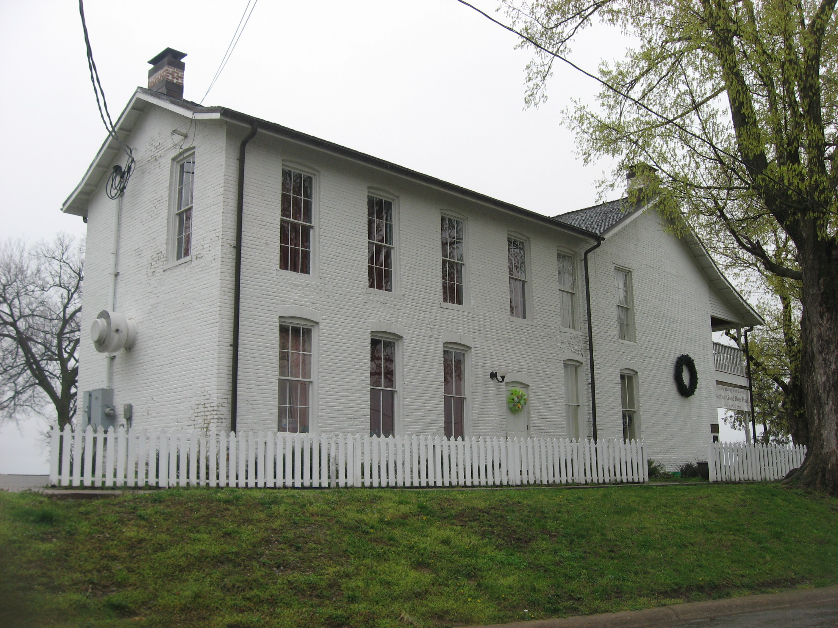 Western side of the Rose Hotel, located on Main Street near the waterfront in Elizabethtown, Illinois, United States. Built in 1812, it is listed on the National Register of Historic Places.